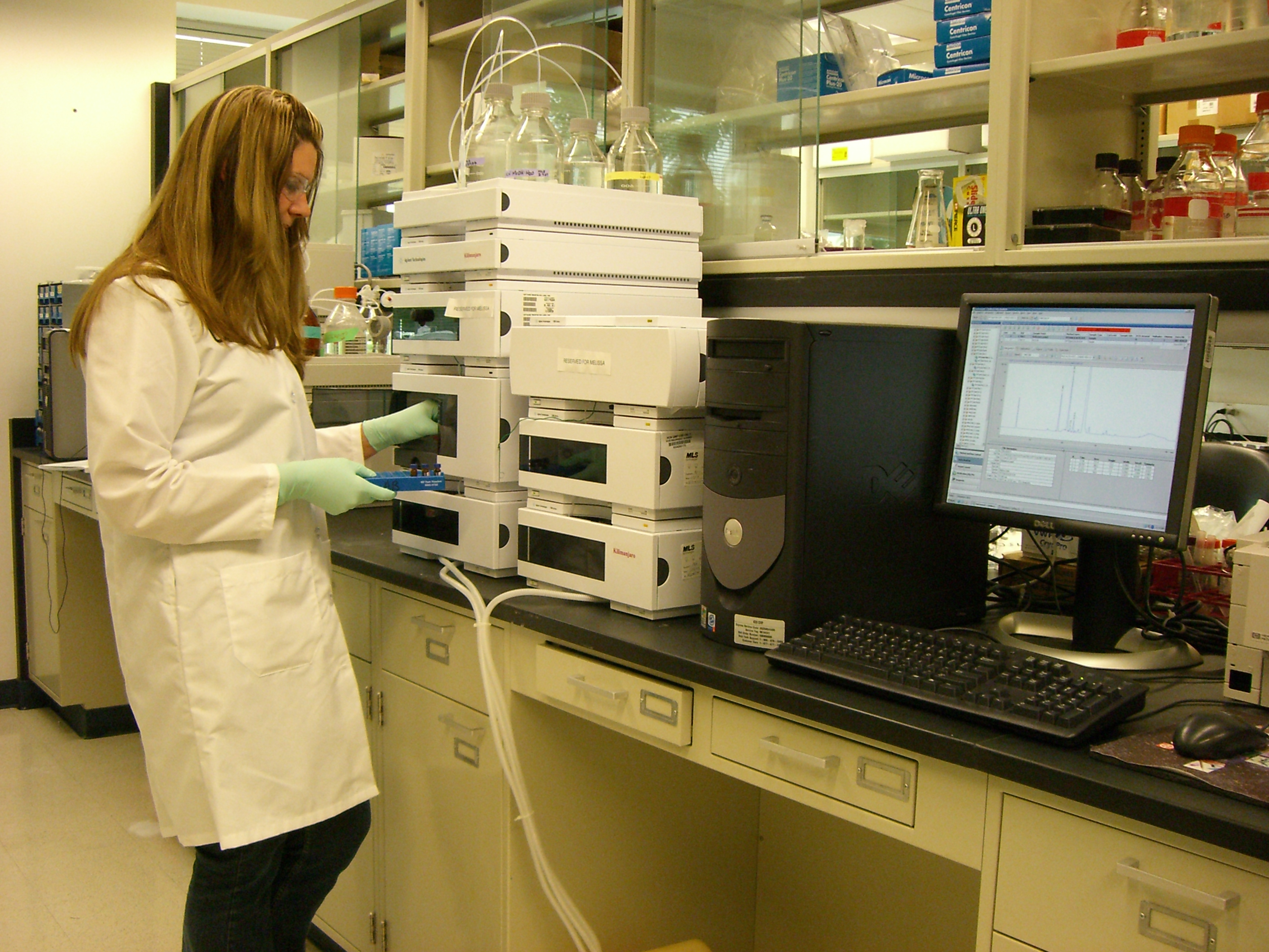 Icos laboratories at their previous headquarters at 22021 20th Avenue SE, Bothell, WA 98021, USA.